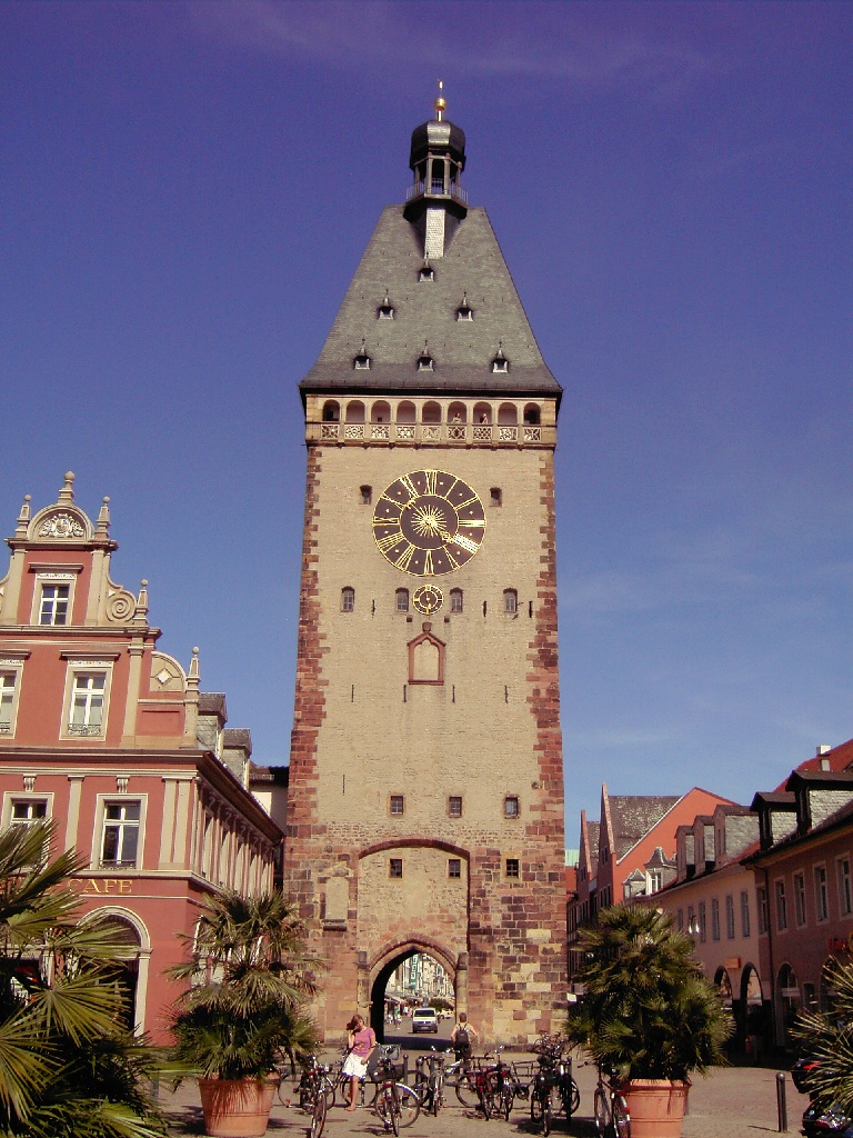 Old Town Gate of Speyer